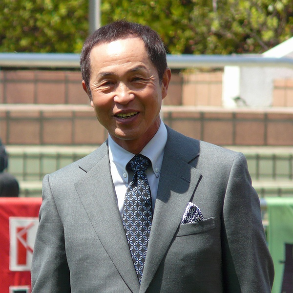 Yukio-Okabe2010